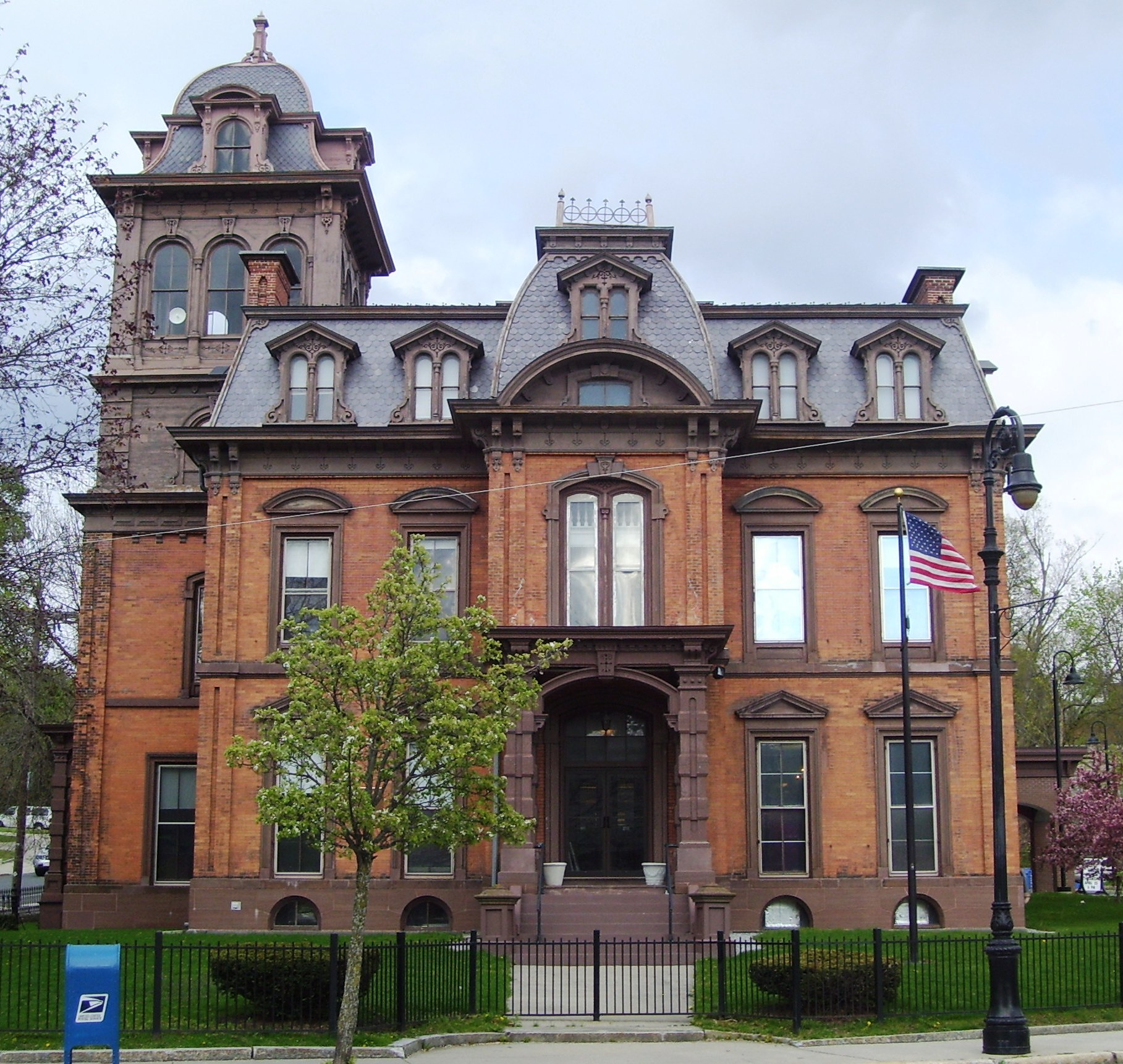 The Public Library in North Adams is located at 74 Church Street on the corner of Main Street. The wood-framed brick-faced building was constructed from 1865-67 as a dwelling for Sanford Blackinton, owner of the Blackinton Company woolen mills. The town's library was established in 1884, and in 1896 the town bought the building from Blackinton to house the collection. Architect Edwin Thayer Barlow designed the conversion. The library was expanded in the mid-1990s with a two-story addition in the rear. The library was converted to a "green" building in 2005. (Source: "Green Building Case Studies: North Adams Public Library")